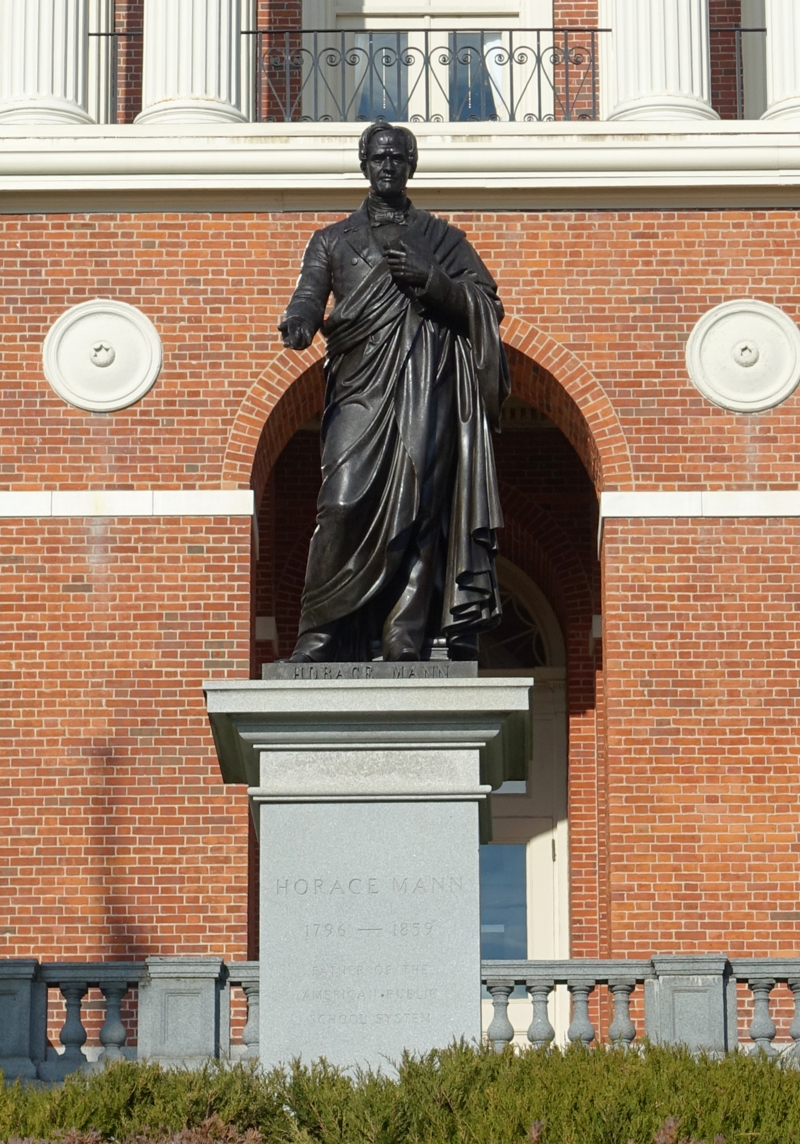 Horace Mann by Emma Stebbins - Boston, Massachusetts, USA. In front of the Massachusetts State House.